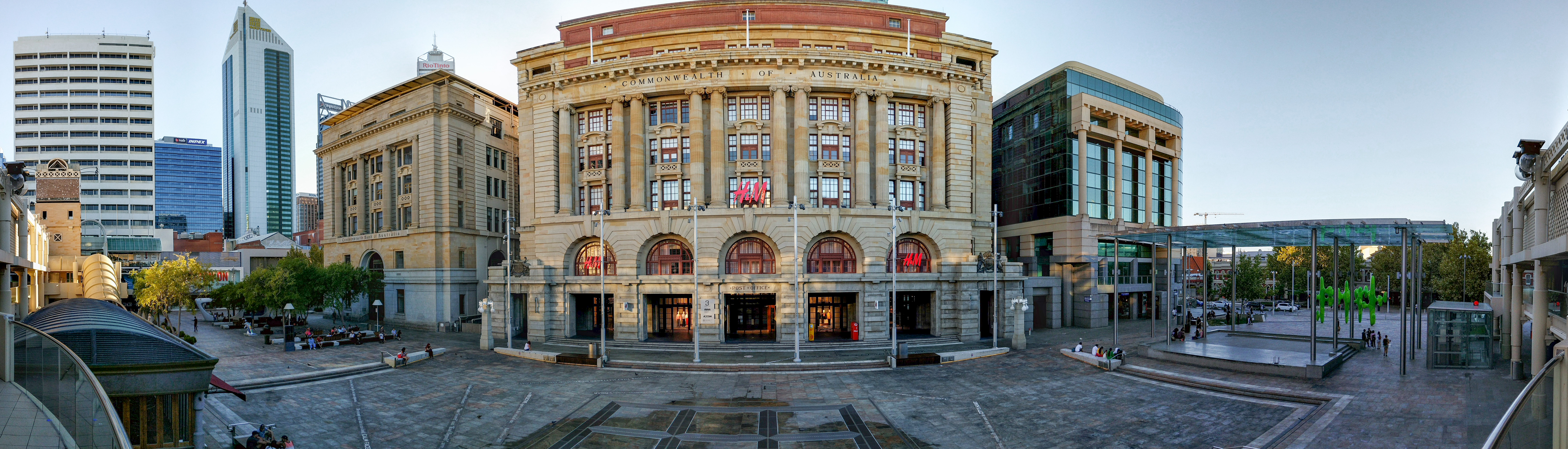 Forrest Place in Perth. Three main buildings (from left to right): Commonwealth Bank building, General Post Office and Albert Facey House.